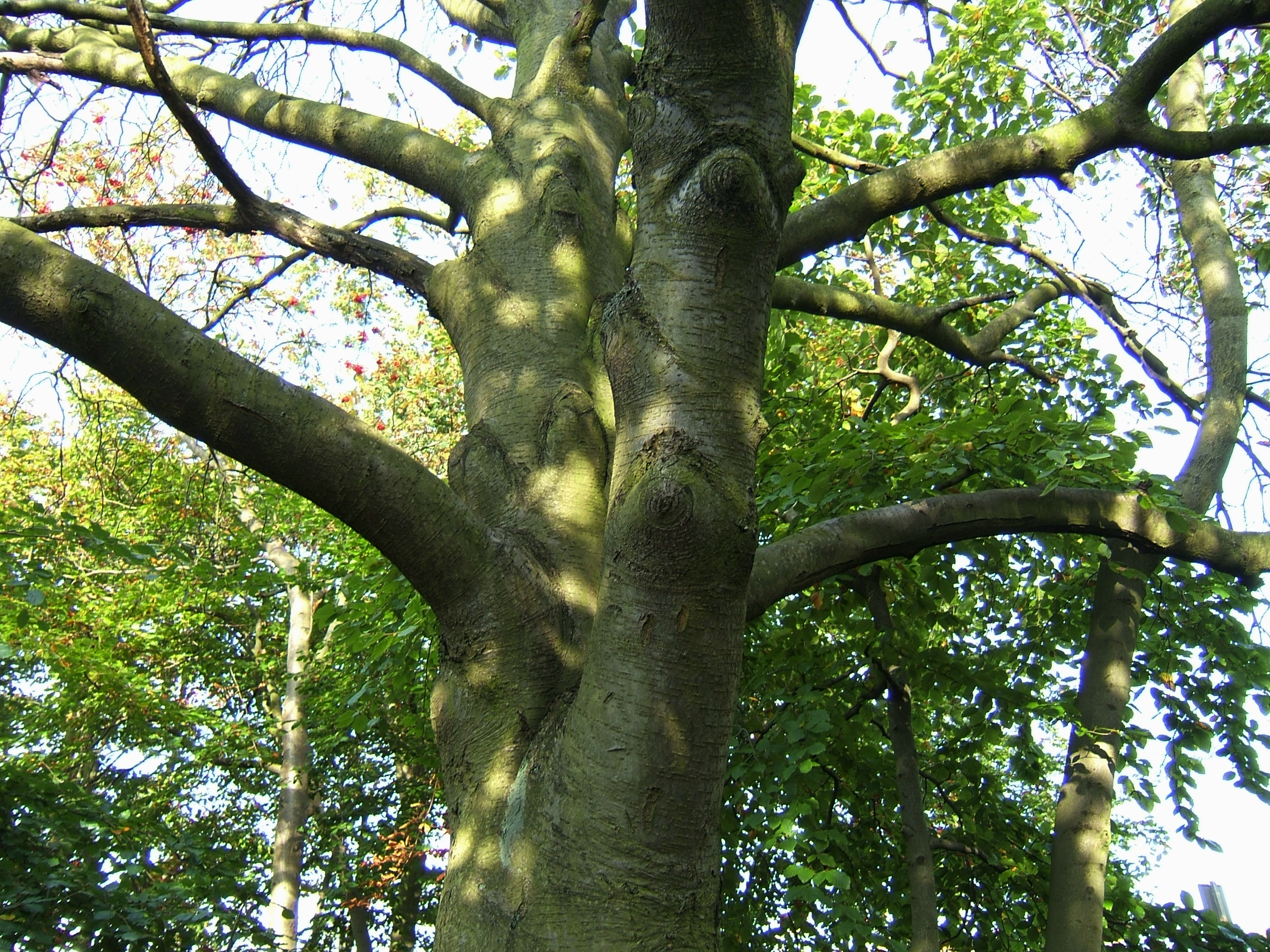 Sorbus intermedia trunk and branches, cultivated, Newcastle, Northumberland, UK